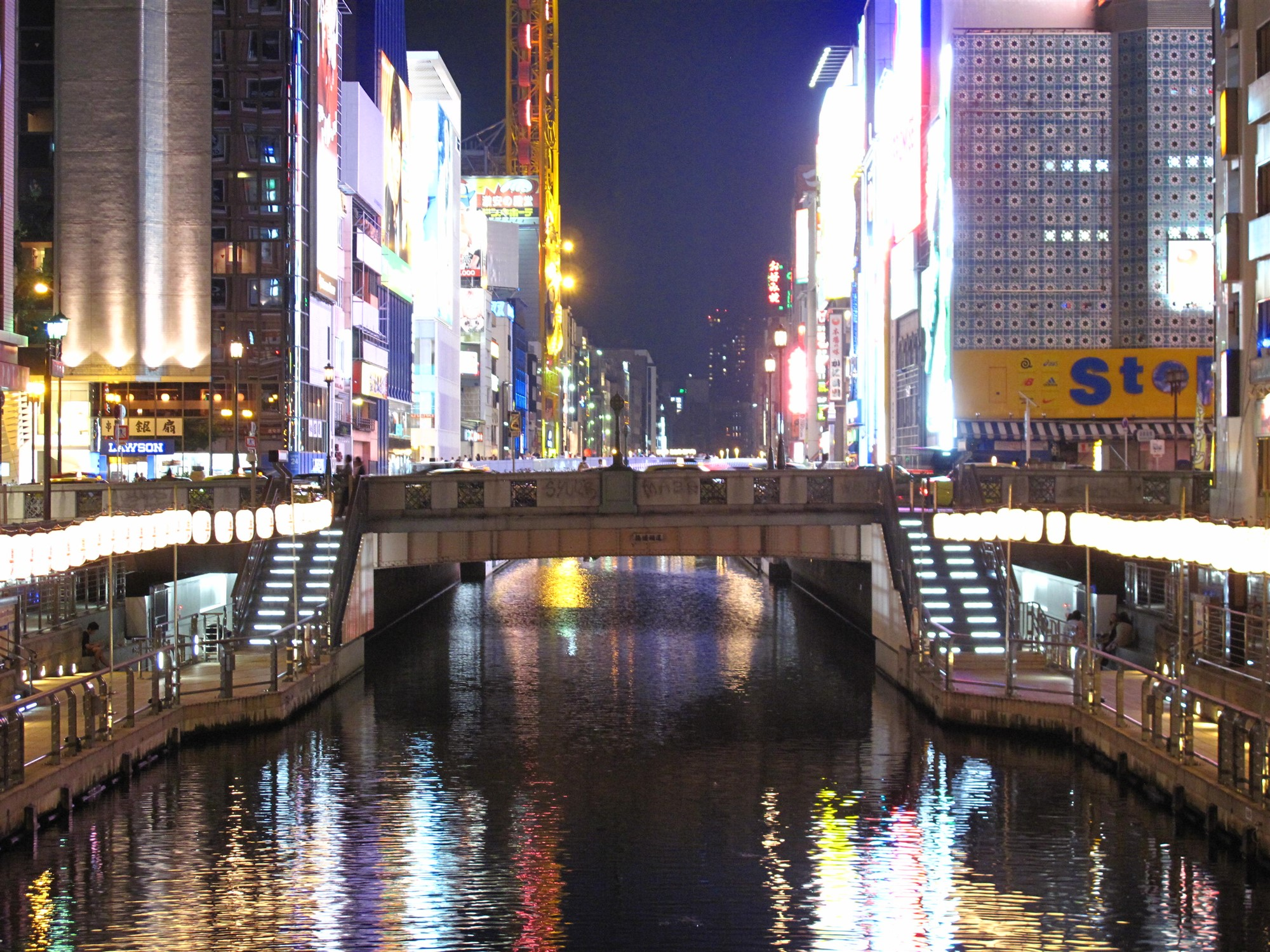 Dotonbori bridge at night, Osaka, Japan